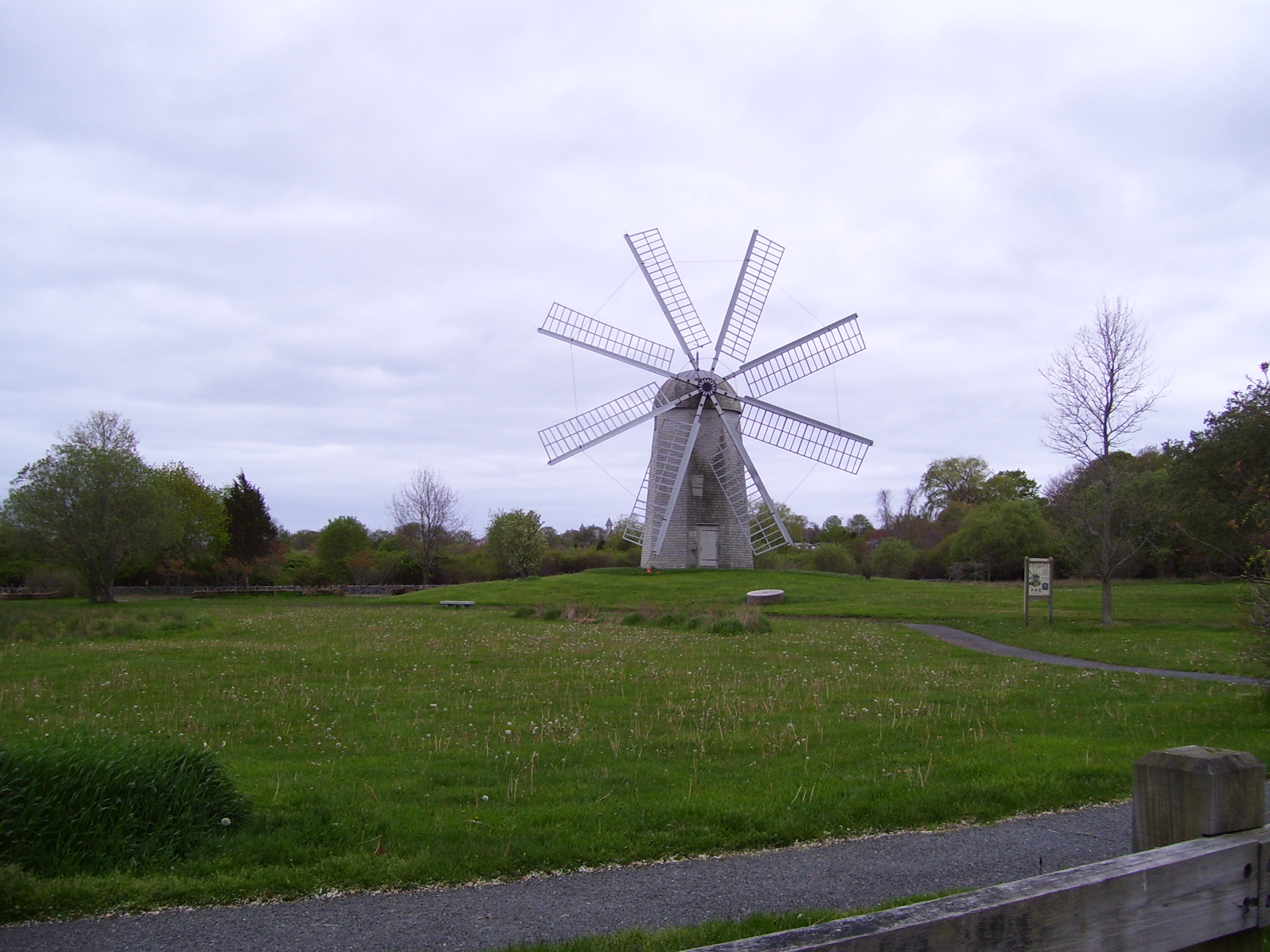 My pic of Boyd's Windmill